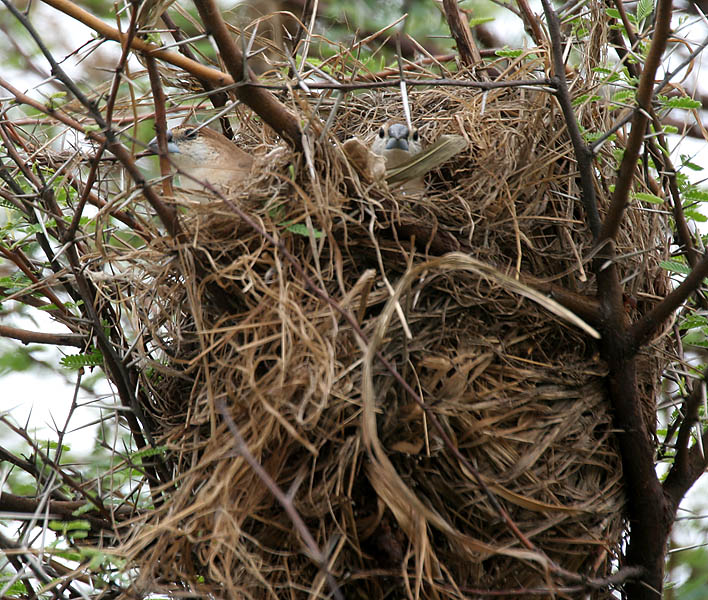 Indian Silverbill or White-throated Munia Lonchura malabarica - Hindi: Charchara, Charga, Charakka, Pidda, Pun: Chittgali munia, Ben: Piduri, Sar munia, Guj: Pavai munia, Munia, Tapushiyu, Sweth kanth tapushiyu, Mar: Malmunia, Ta: Nellu-kuruvi, Te: Jinuwayi, Mal: Vayalatta, Kan: Bili kantada munia, Sinh: Wee-kurulla- at Pocharam lake, Andhra Pradesh, India.